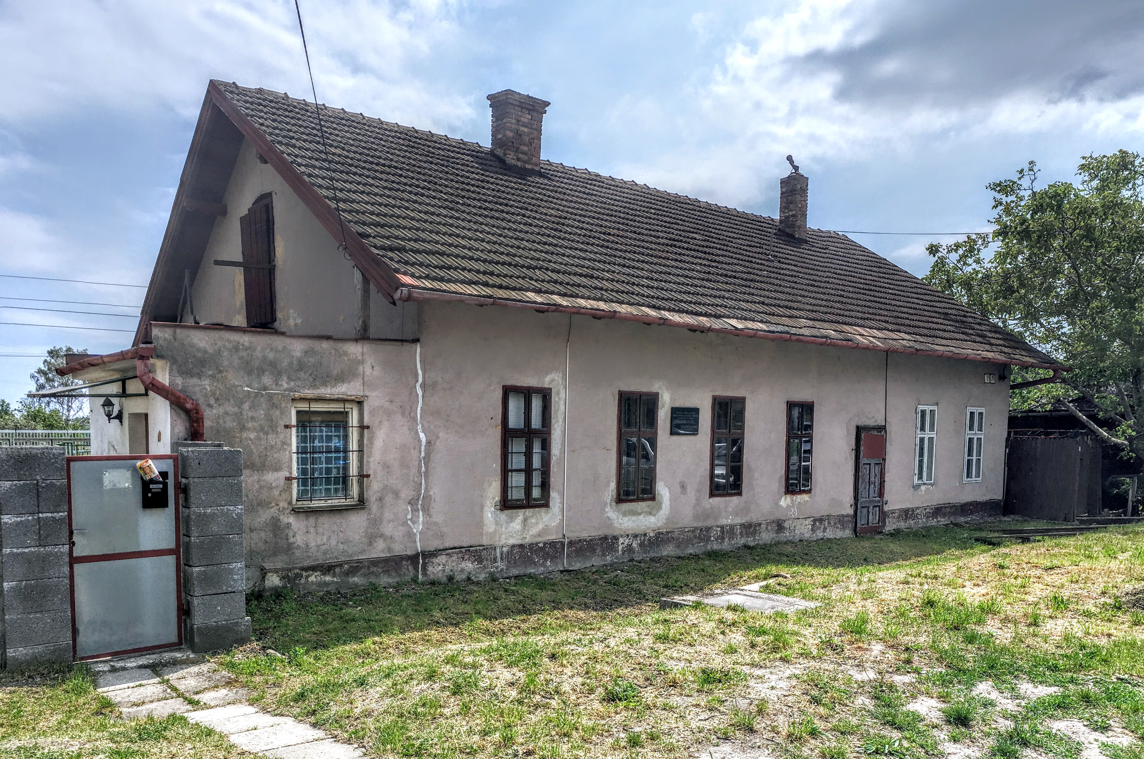 Former horsecar railway station from 1840 in Svätý Jur.